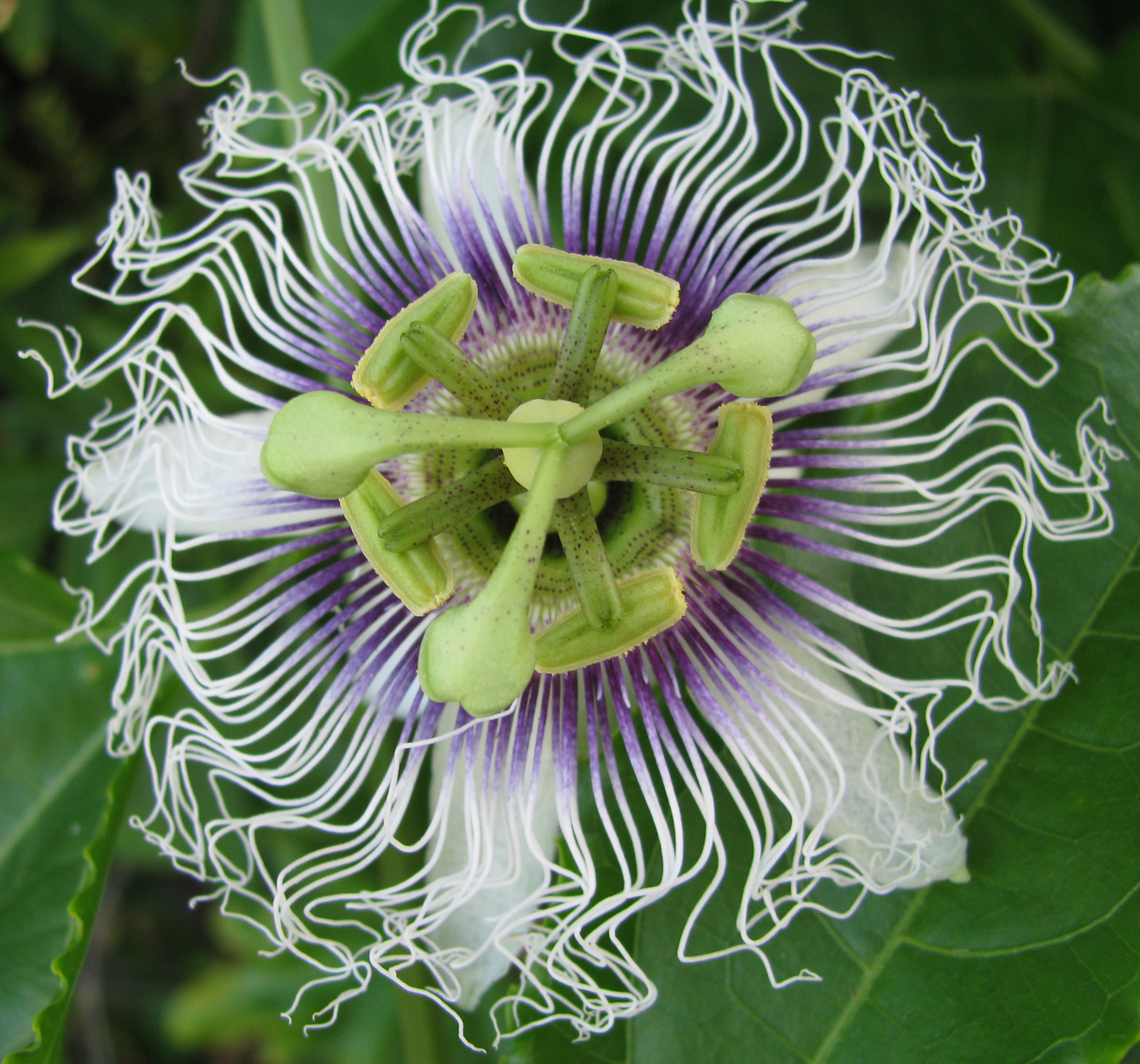 Day 88/365 - Discovery When I was around 9 or 10 I used to go walking to school. On the way to school, there was this old english house of an old English lady who had the most incredible plants. One of them was this plant, the Passion fruit or "Granadilla" as we used to call it. Today, I discovered I had it in my back yard. It is not "technically" mine, but from my back yard neighbourgh creeping on my fence. I couldnt believe it. What has always facinated me the most is the shapes of the pistils.